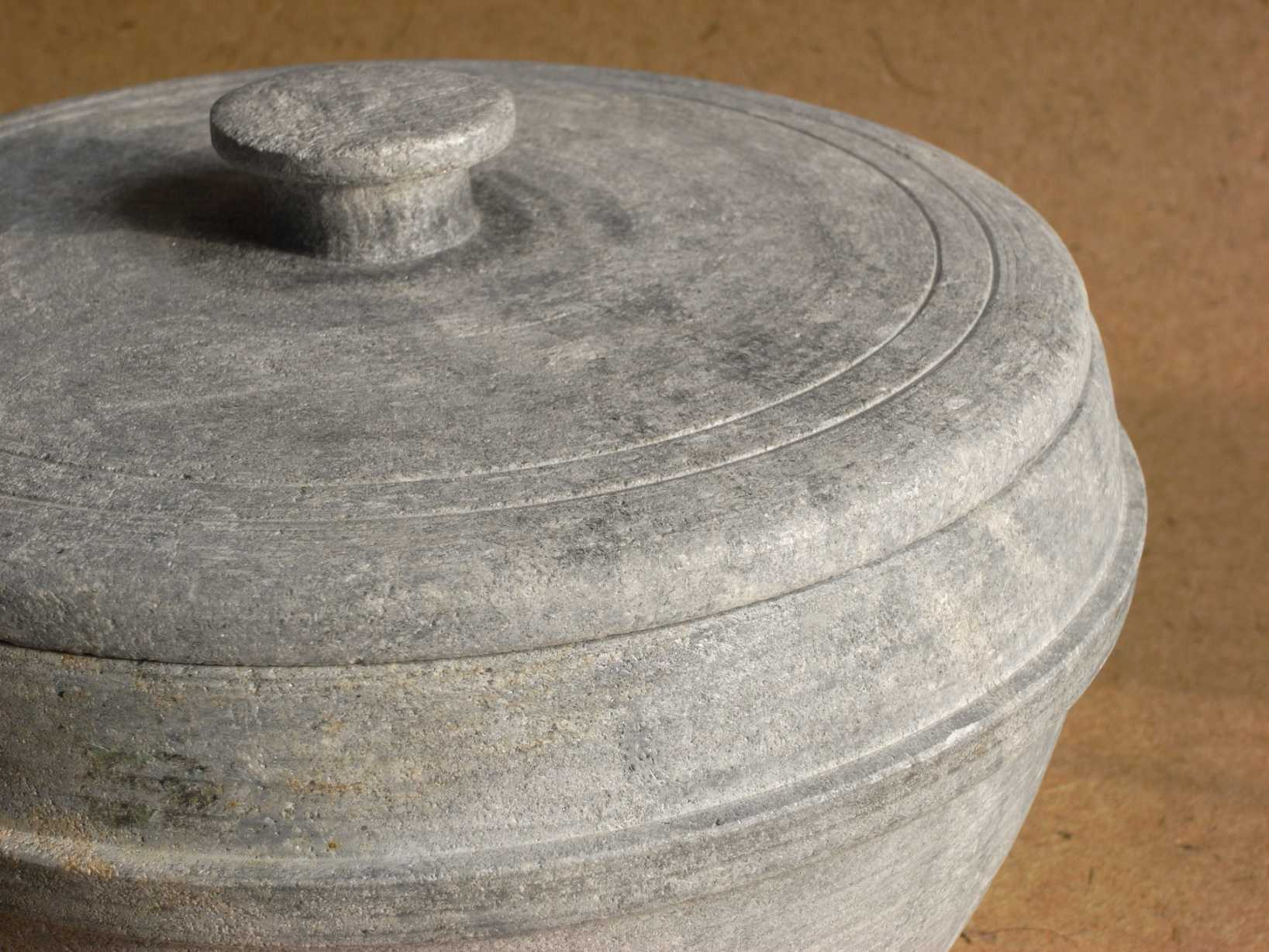 soapstone pot with lid (after a historic model)